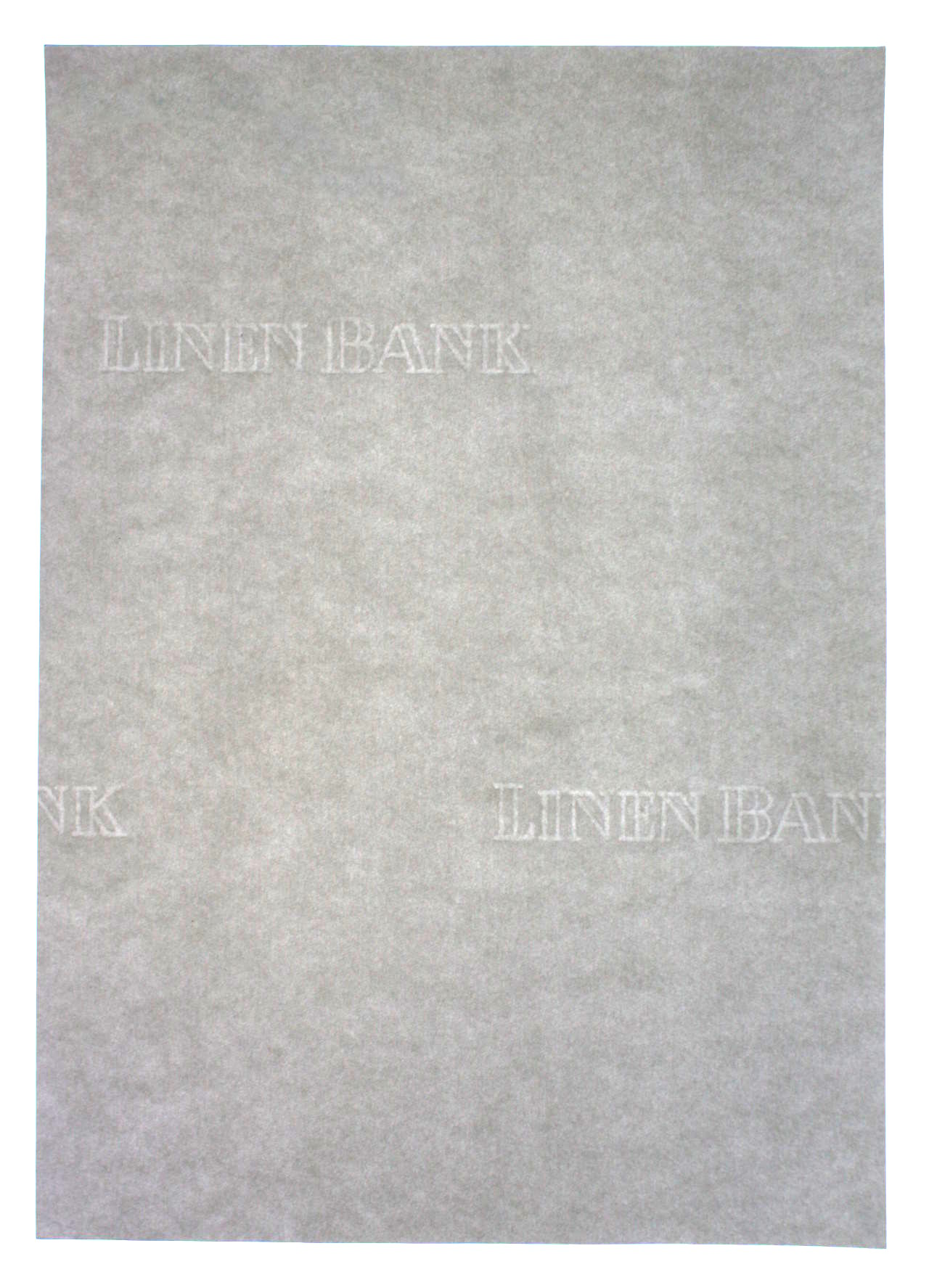 A backlit sheet of Linen Bank brand A4 paper showing watermarks.